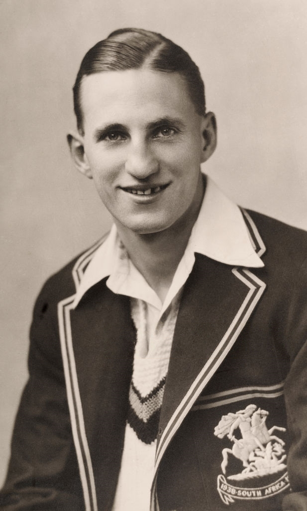 Yorkshire and England cricketer Len Hutton, wearing his 1938 MCC England tour blazer, circa April 1938.